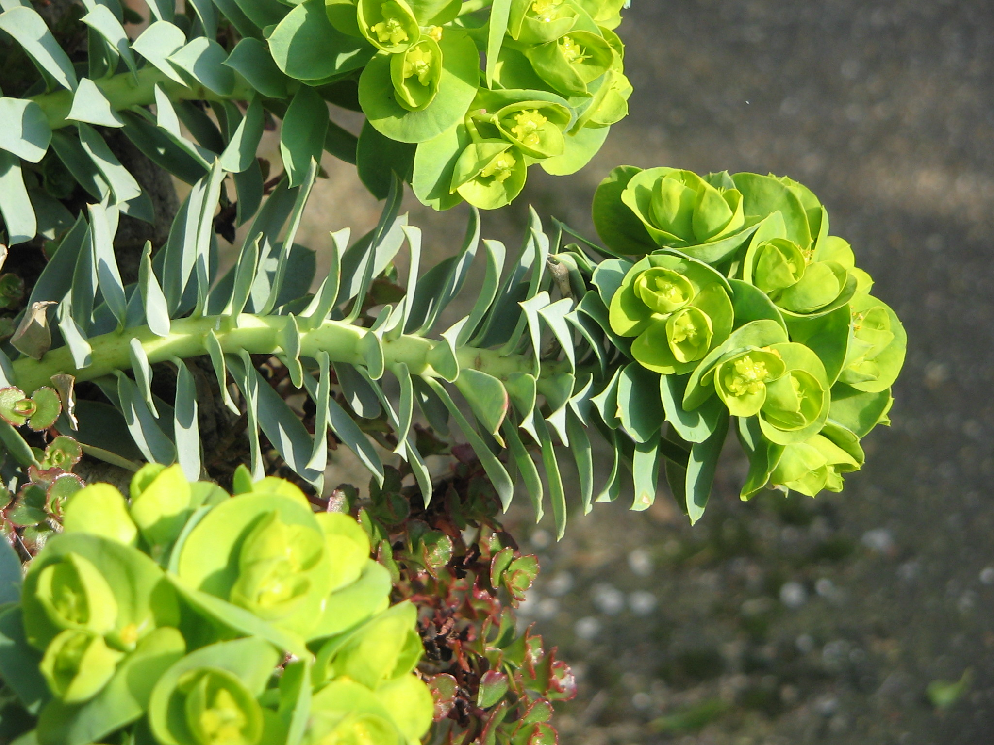 Euphorbia myrsinites